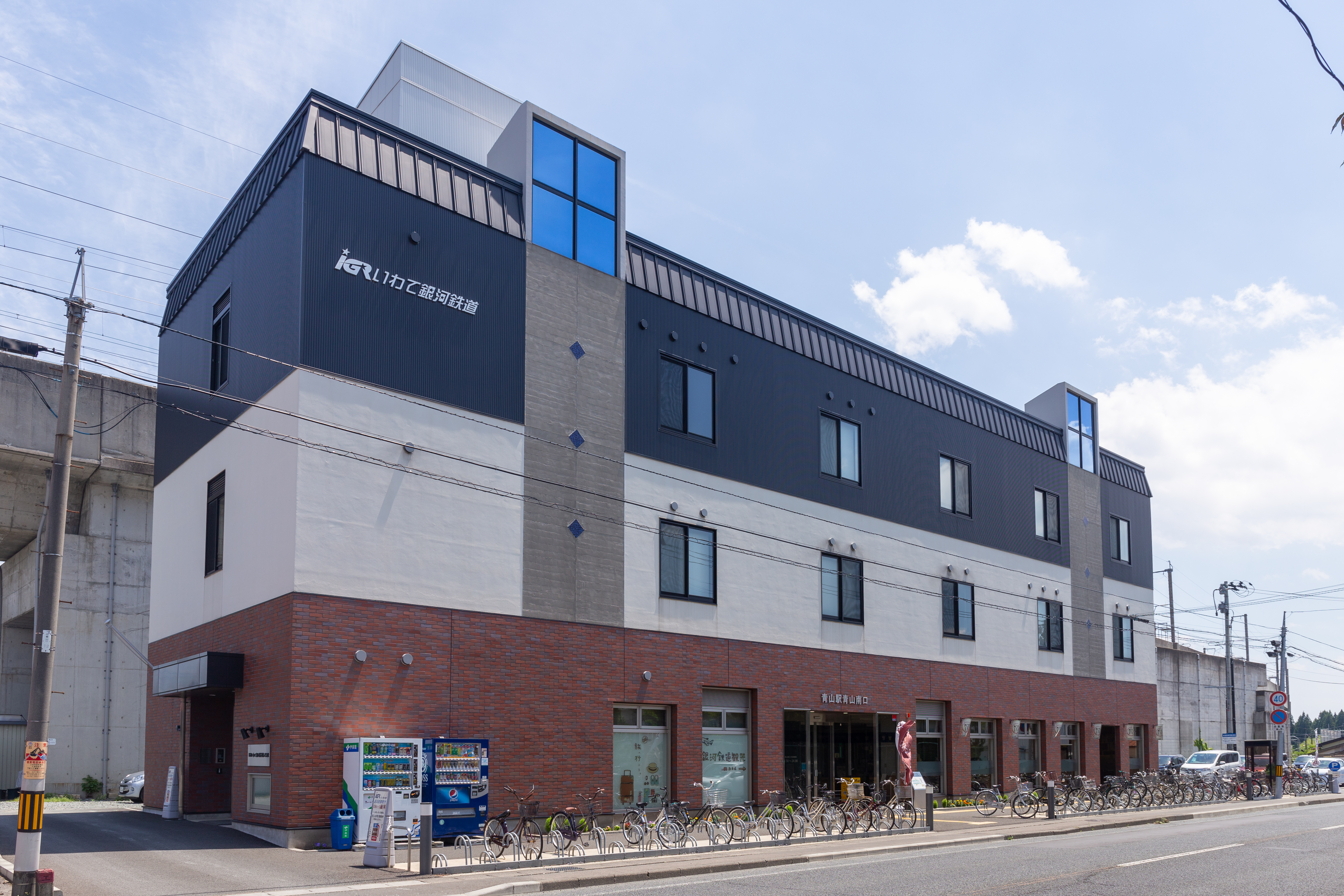 Iwate Galaxy Railway headquarters and Aoyama Station building in Morioka City, Iwate Prefecture, Japan